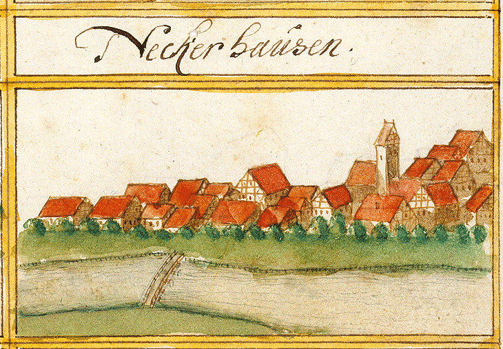 View of Neckarhausen, Nürtingen, from the forest register books created by Andreas Kieser